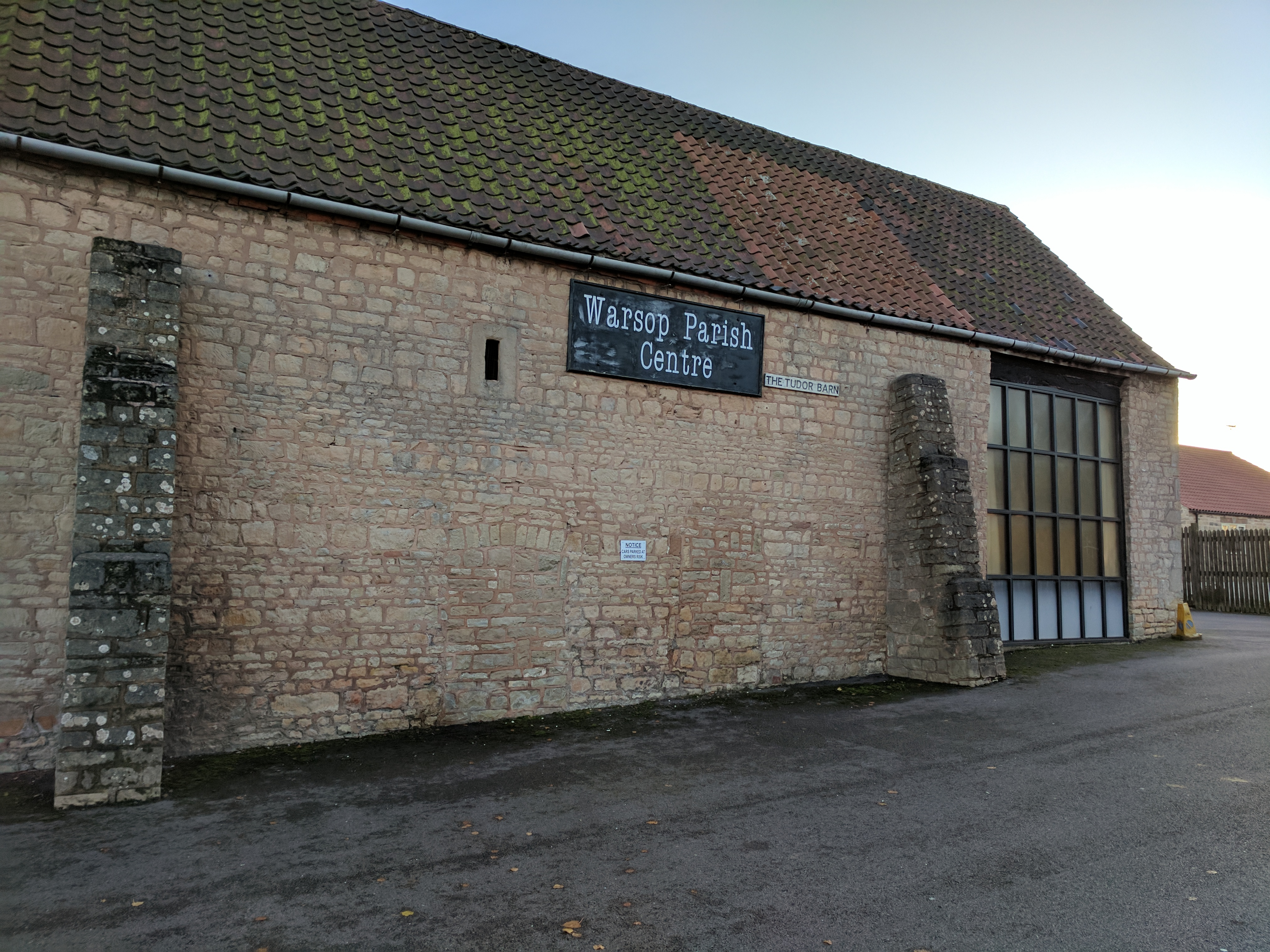 Warsop Parish Centre Wikidata has entry Q17547570 with data related to this item.